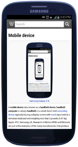 Samsung Galaxy S III smartphone displaying the main page of the English Wikipedia with the built-in Android browser.